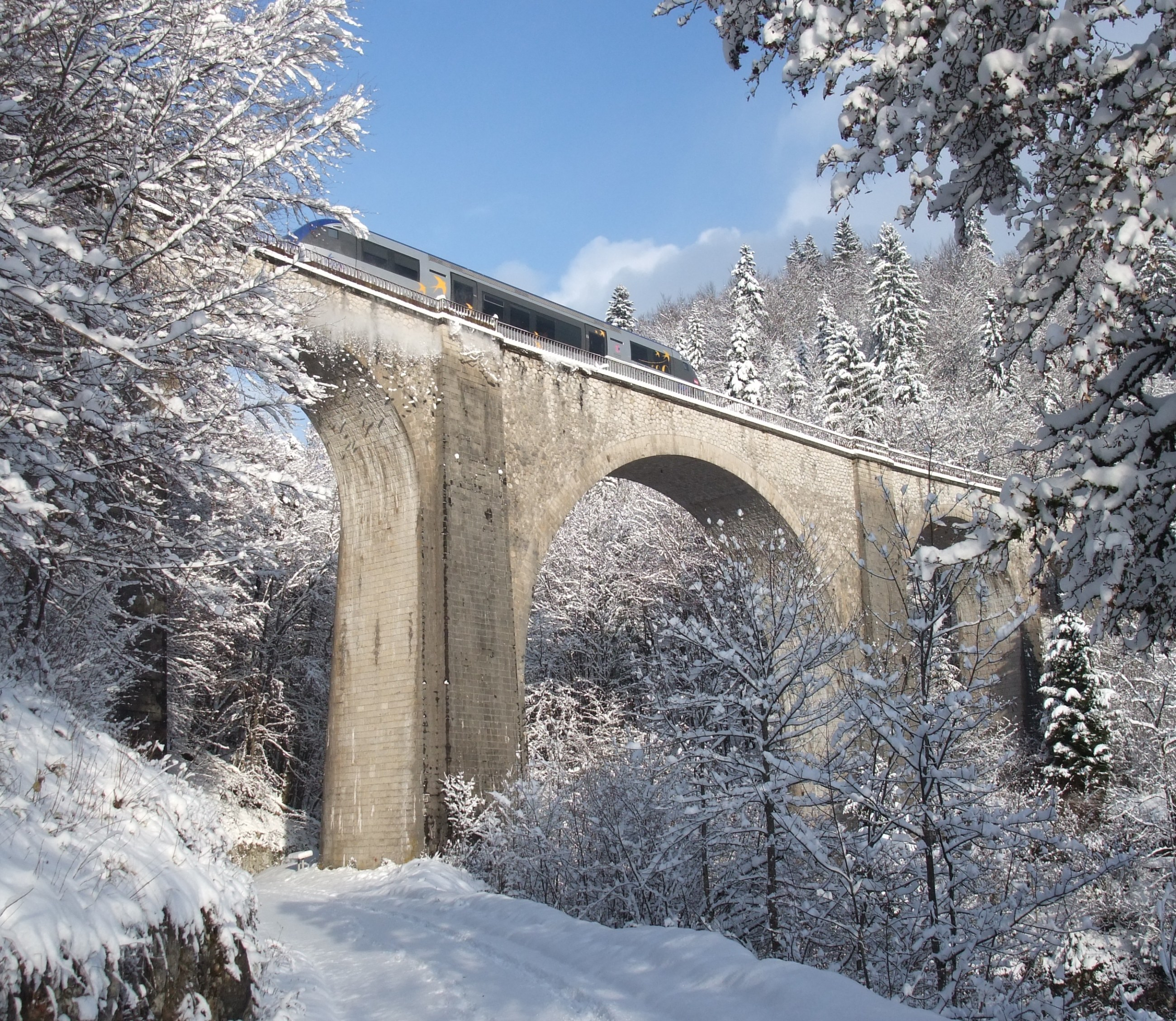 Train on the Saillard bridge after snowfall. Morez, Jura, France.